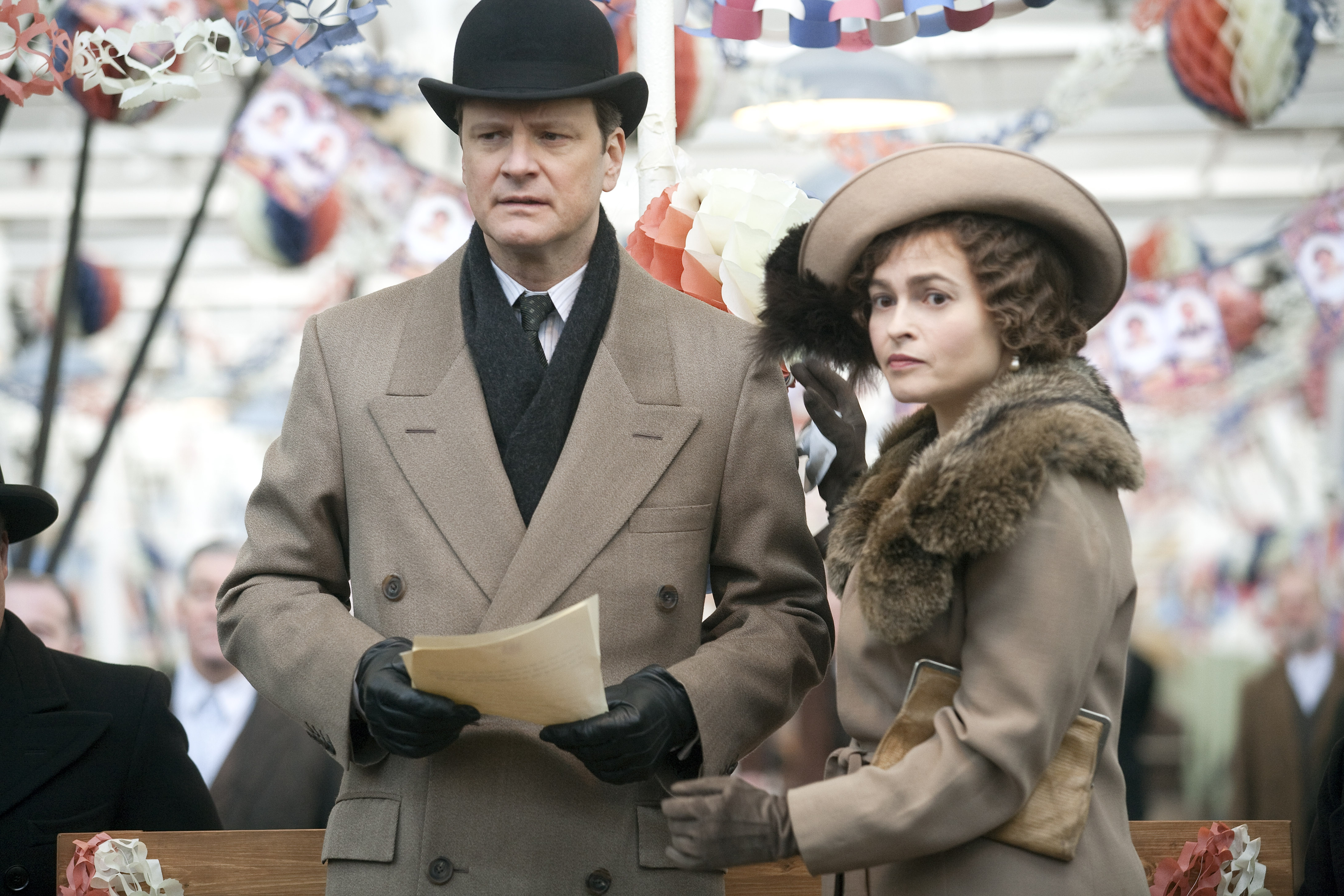 Colin Firth and Helena Bonham Carter filming The King's Speech at Queen Street Mill Textile Museum.